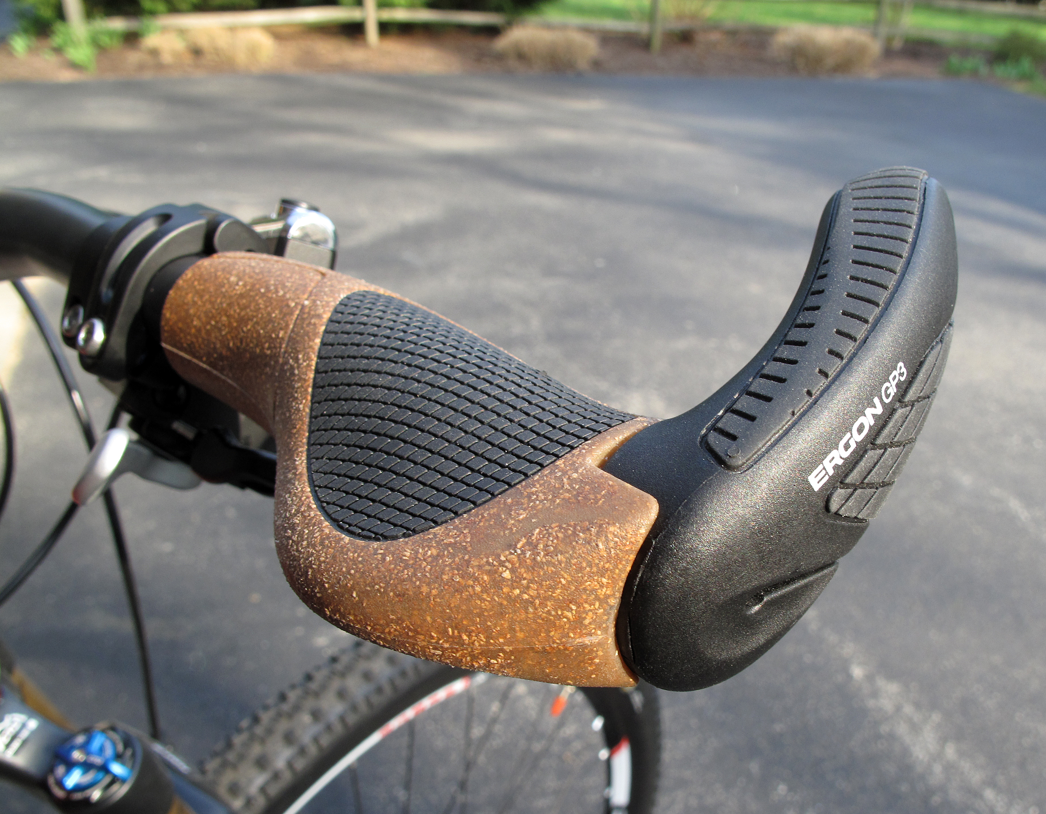 An ergonomic grip with bar end on the handlebars of a 2013 Santa Cruz Tallboy mountain bike.